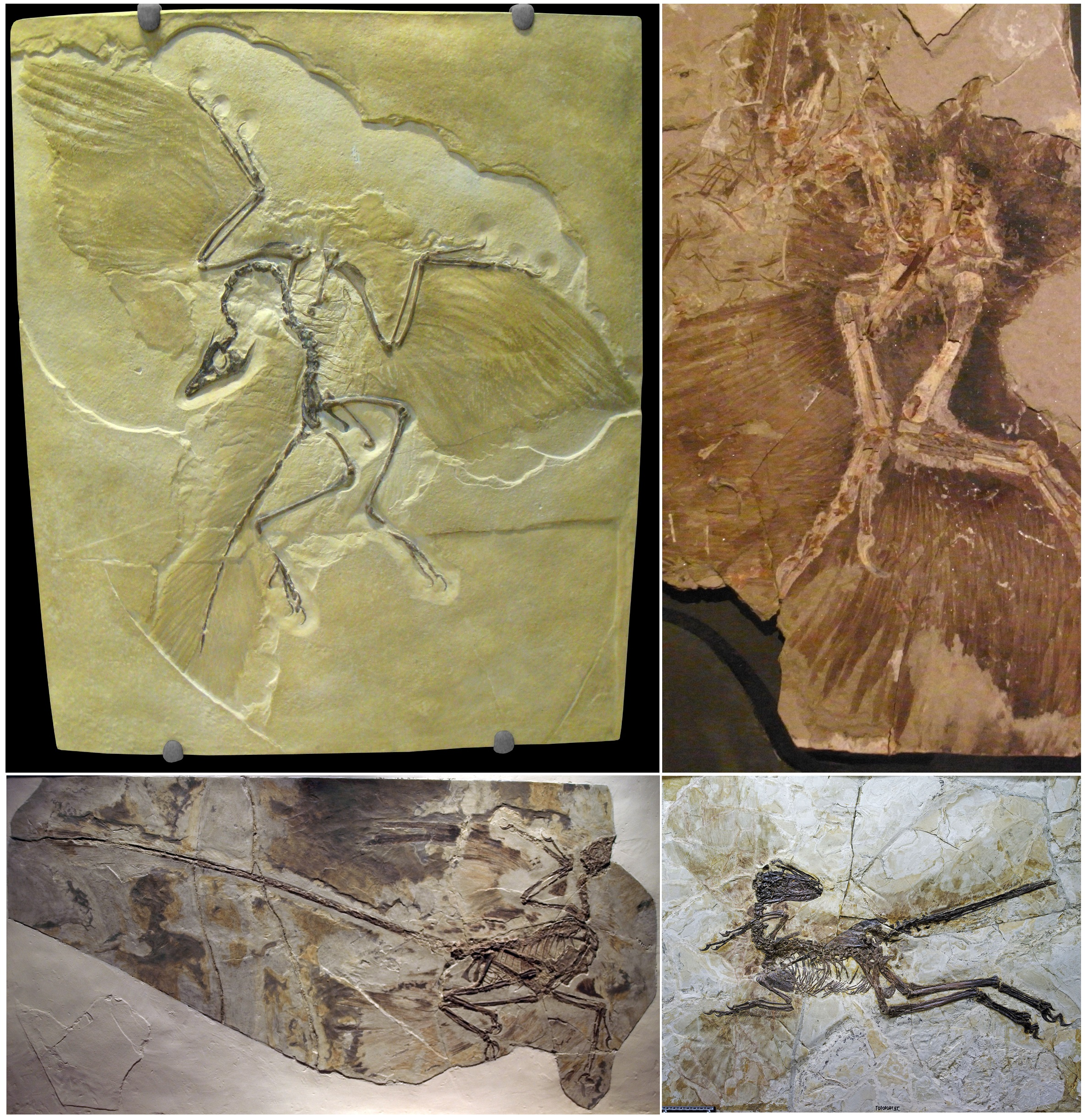 Composite figure of various feathered maniraptorans: Archaeopteryx, Anchiornis, Microraptor and Zhenyuanlong